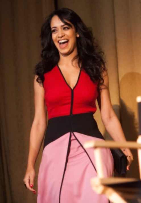 Devika Bhise at The San Francisco Film Festival in 2016